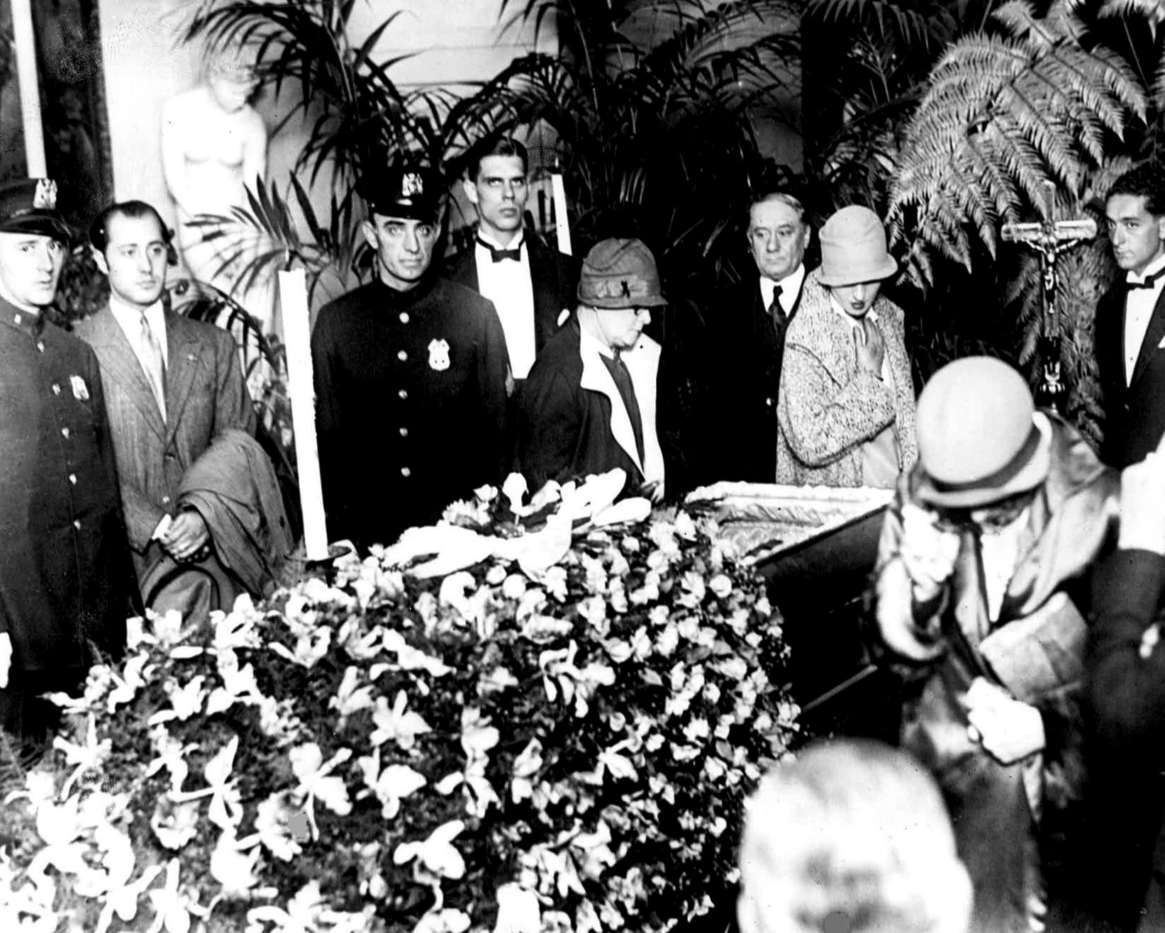 Photo of Jean Acker, the first wife of Rudolph Valentino, weeping after she pays her respects to her former husband. Accompanying Acker is her mother, Mrs. Martha Acker, and her sister, Edith Acker. Acker is seen on the right of the photo.